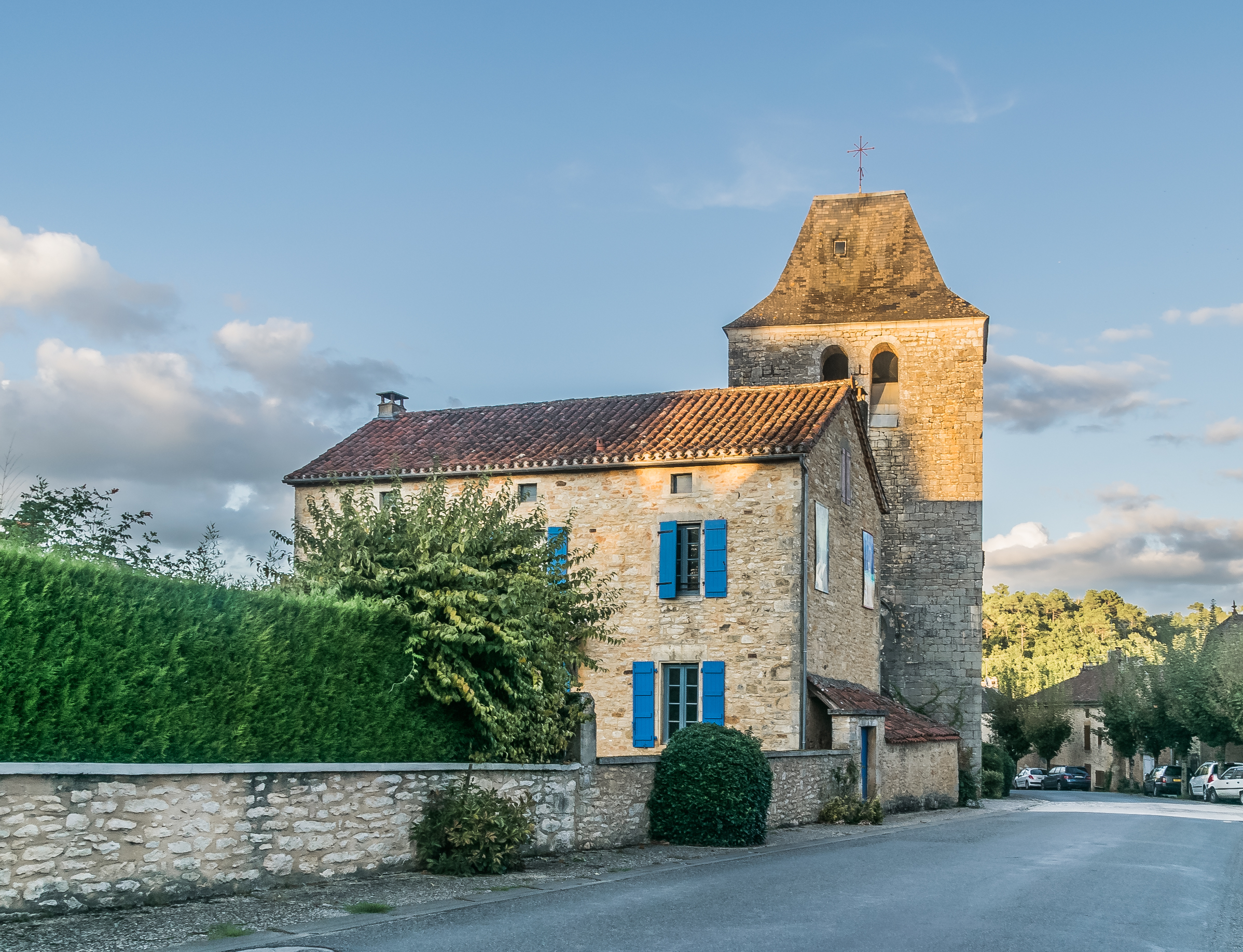 View of the Church of Saint-Pierre-ès-Liens in Goujounac, Lot, France